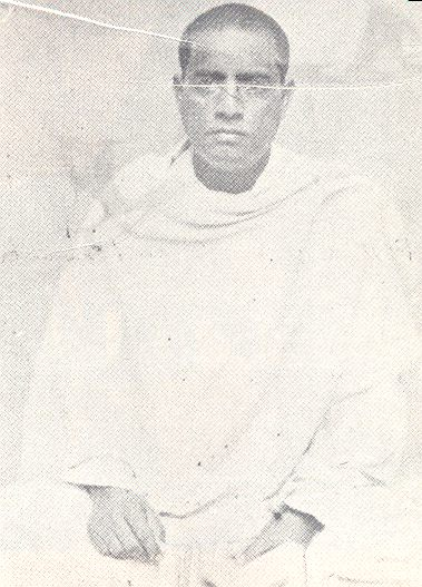 Swami Brahmabandhav Upadhyay, Hindu-Christian visionary and theologian